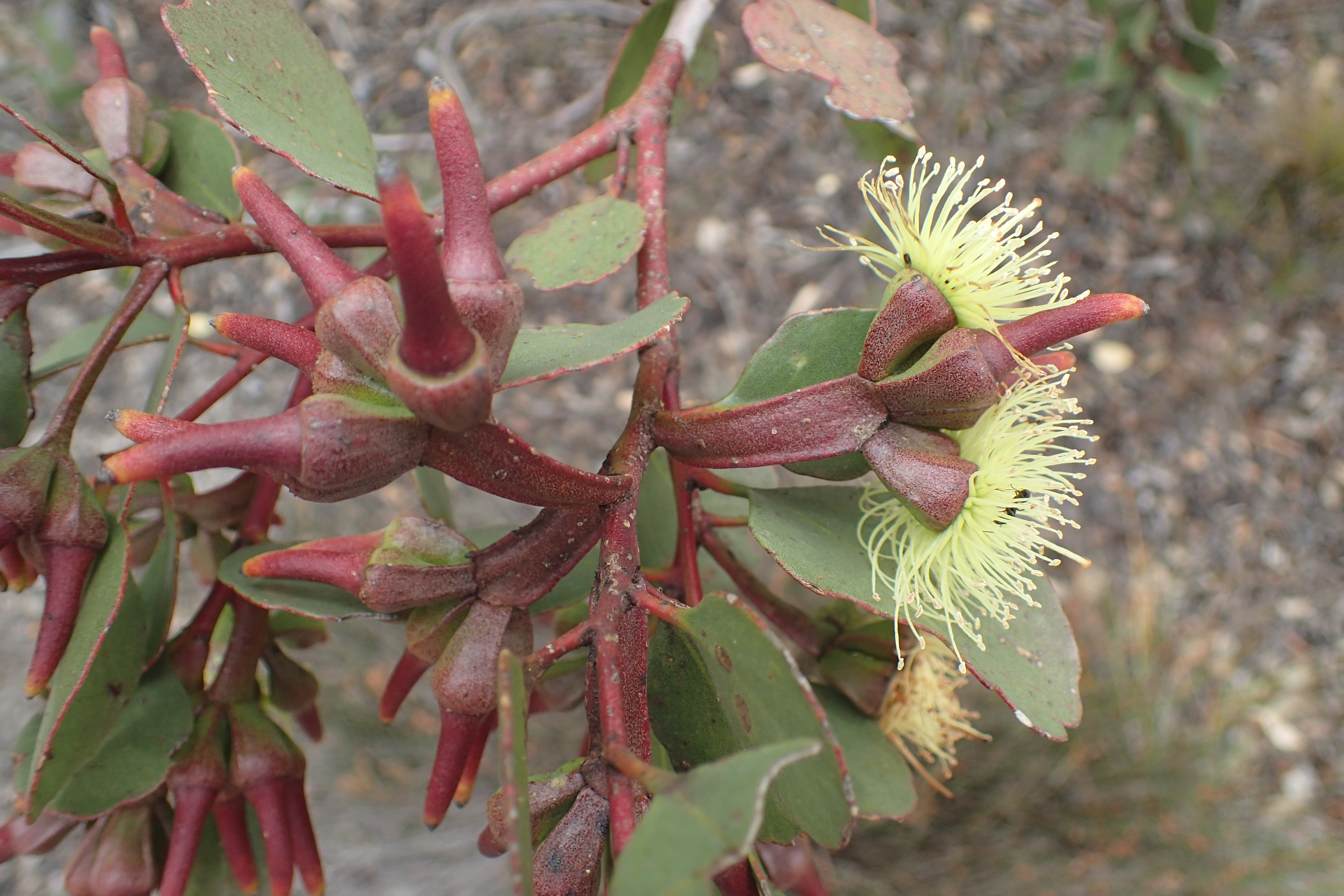 Flower buds and flowers of Eucalyptus platypus in Helms Arboretum, near Esperance, W.A.